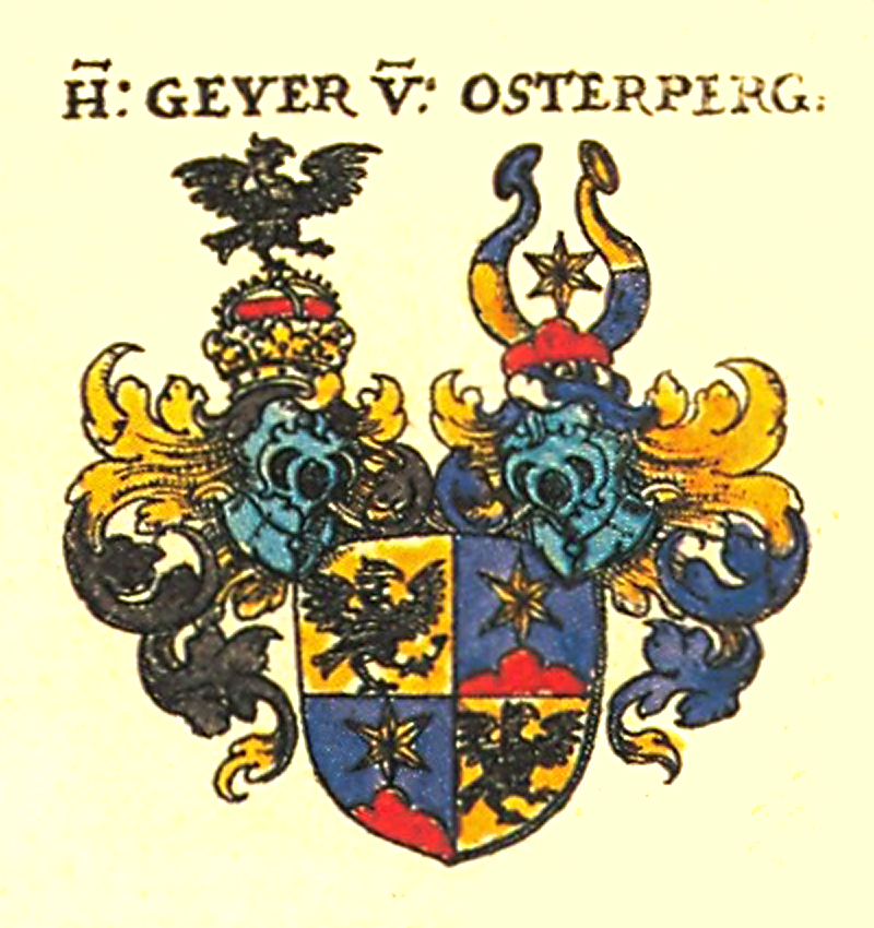 Coat of Arms of Geyer von Osterberg